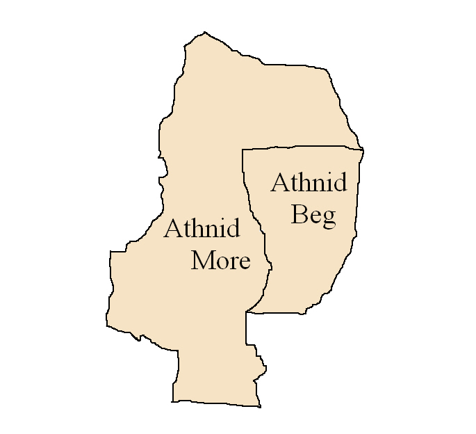 Outline maps showing the townlands in Athnid civil parish in North Tipperary